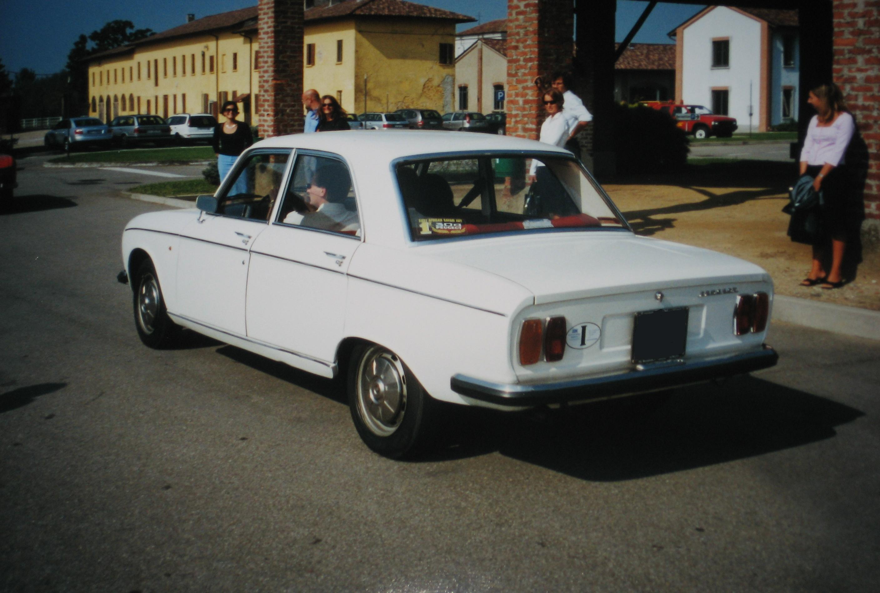 This photo shows an early Peugeot 304 Mk1, built from 1969 until 1972. This is a picture of another photo. The original picture was taken in september 2002, during a meeting of old Peugeot cars. Only four years later this photo was re-taken by a digital camera. I relaease all rights in the public domain.